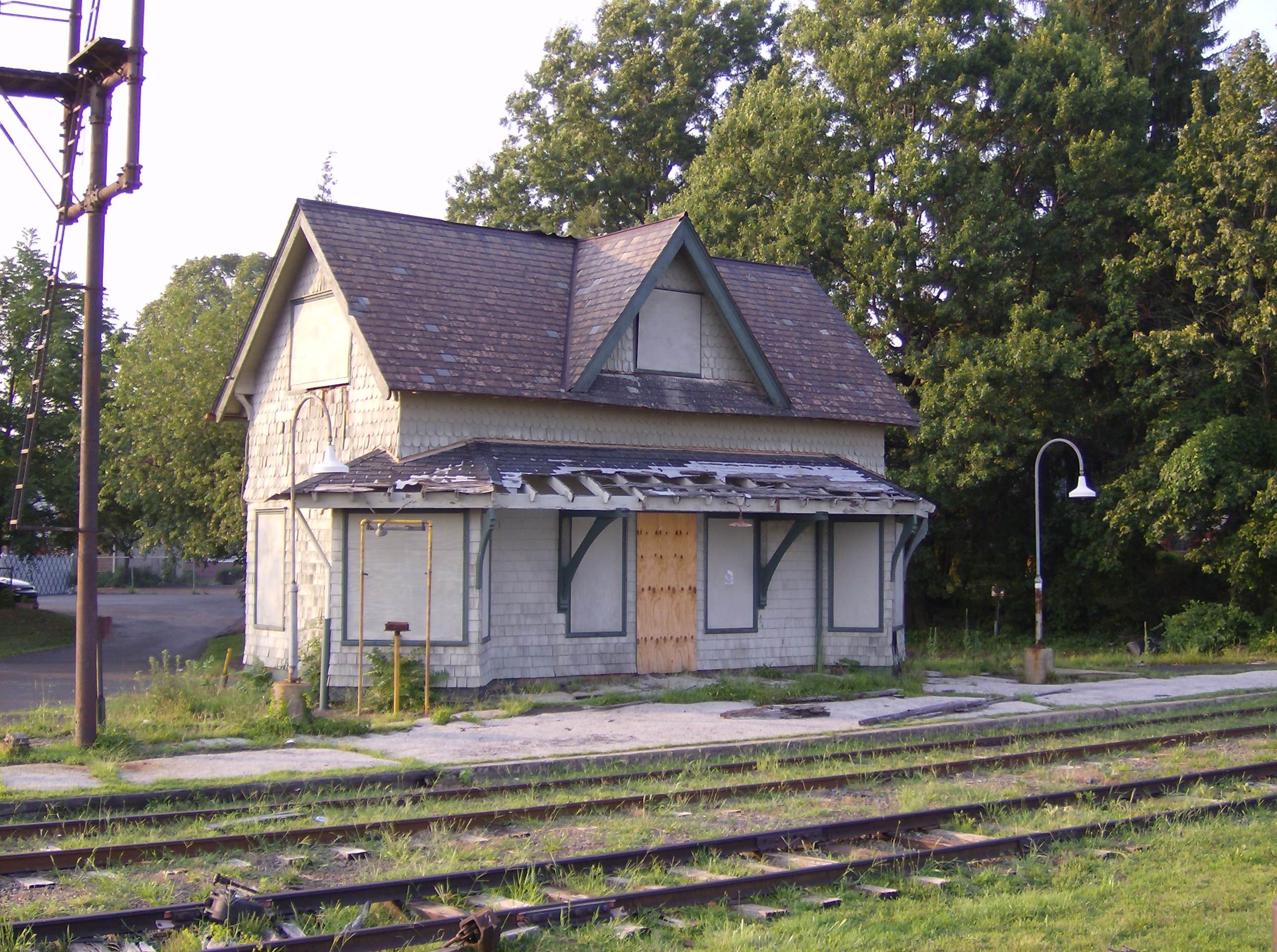 Former Southampton station house in 2006